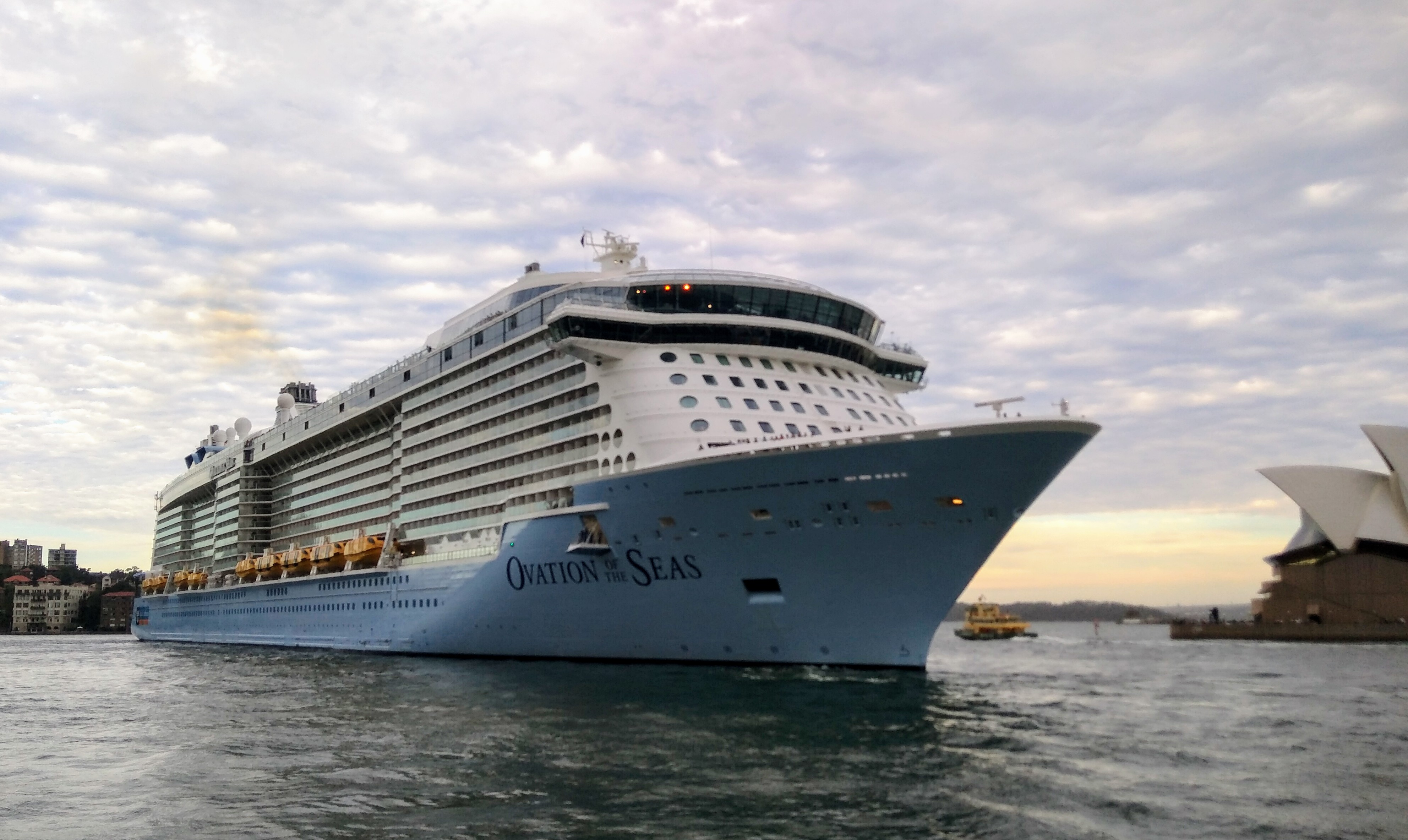 Ovation of the Seas at Sydney